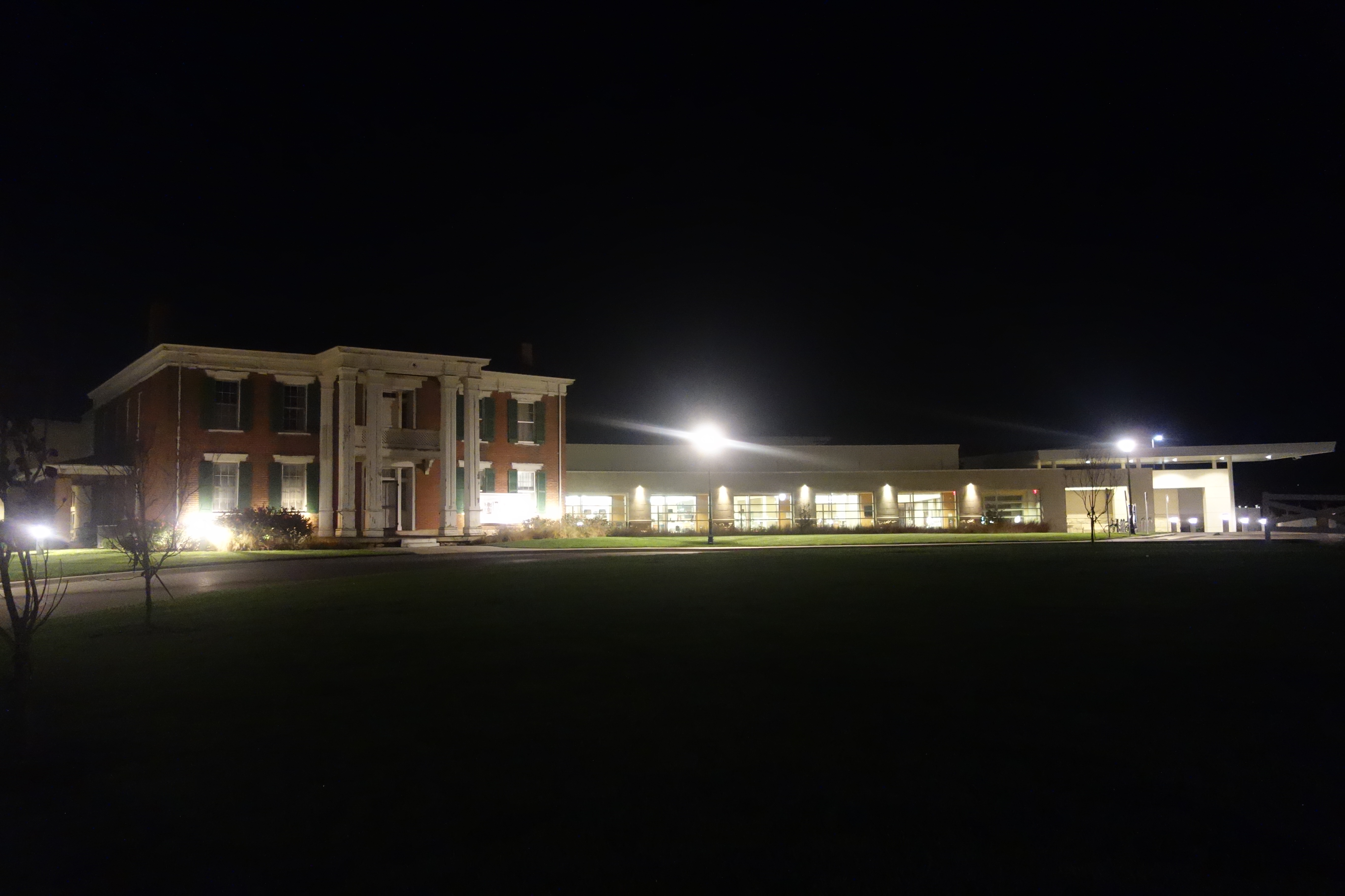 Woodneath Library Center at night, showing both the Woodneath farmhouse and the attached library building.